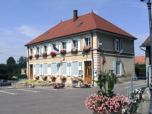 Townhall Joncherey